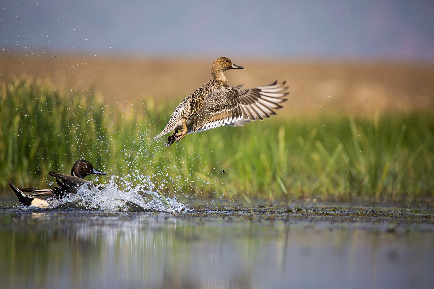 mangalajodi